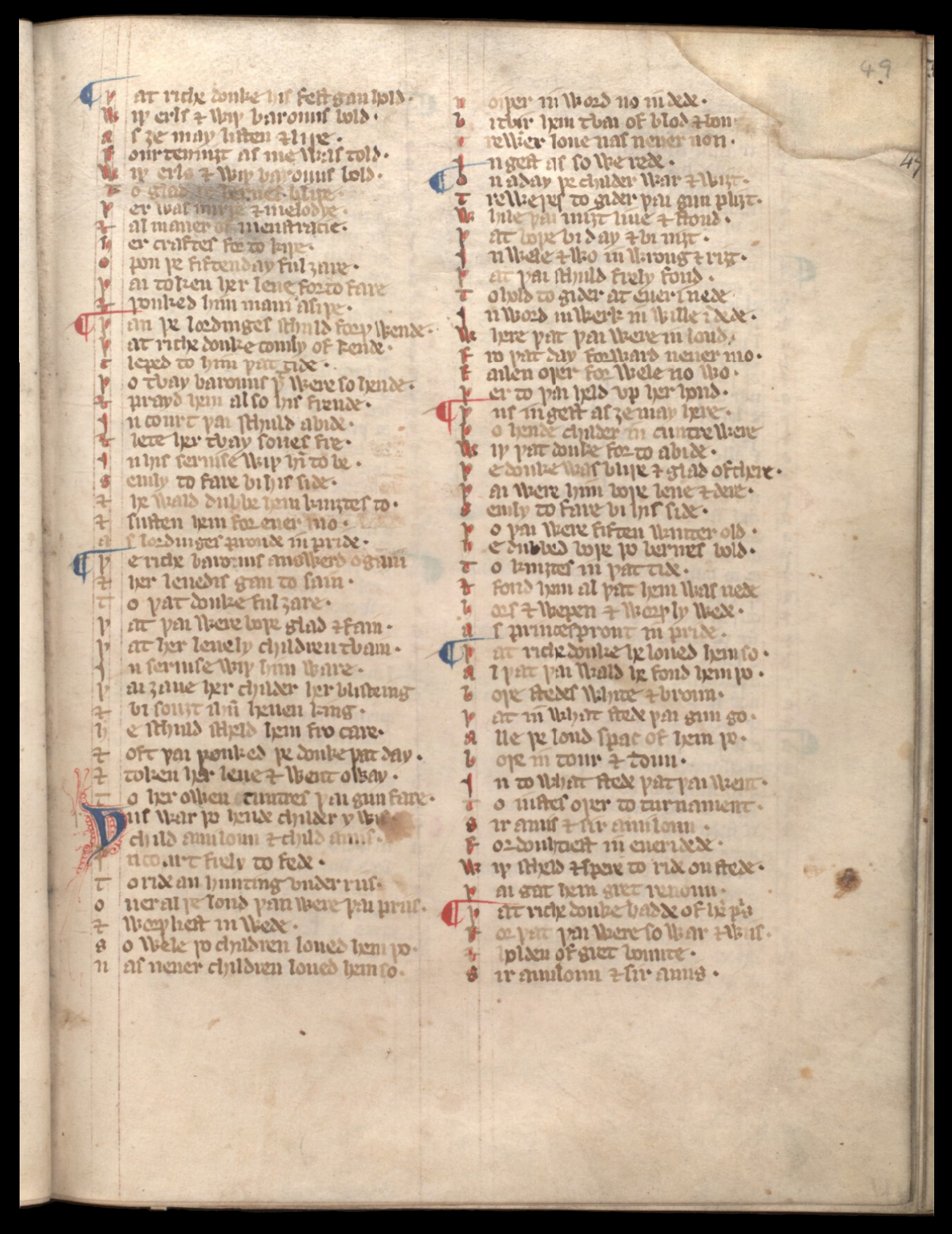 Amis and Amiloun. The Auchinleck Manuscript f.49ra.